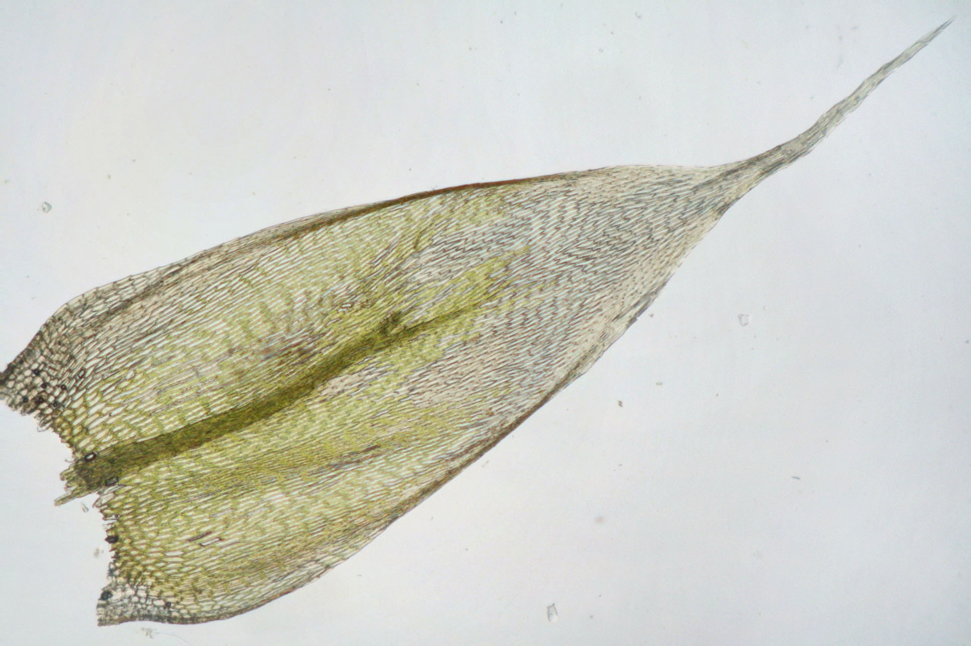 Cirriphyllum tommasinii